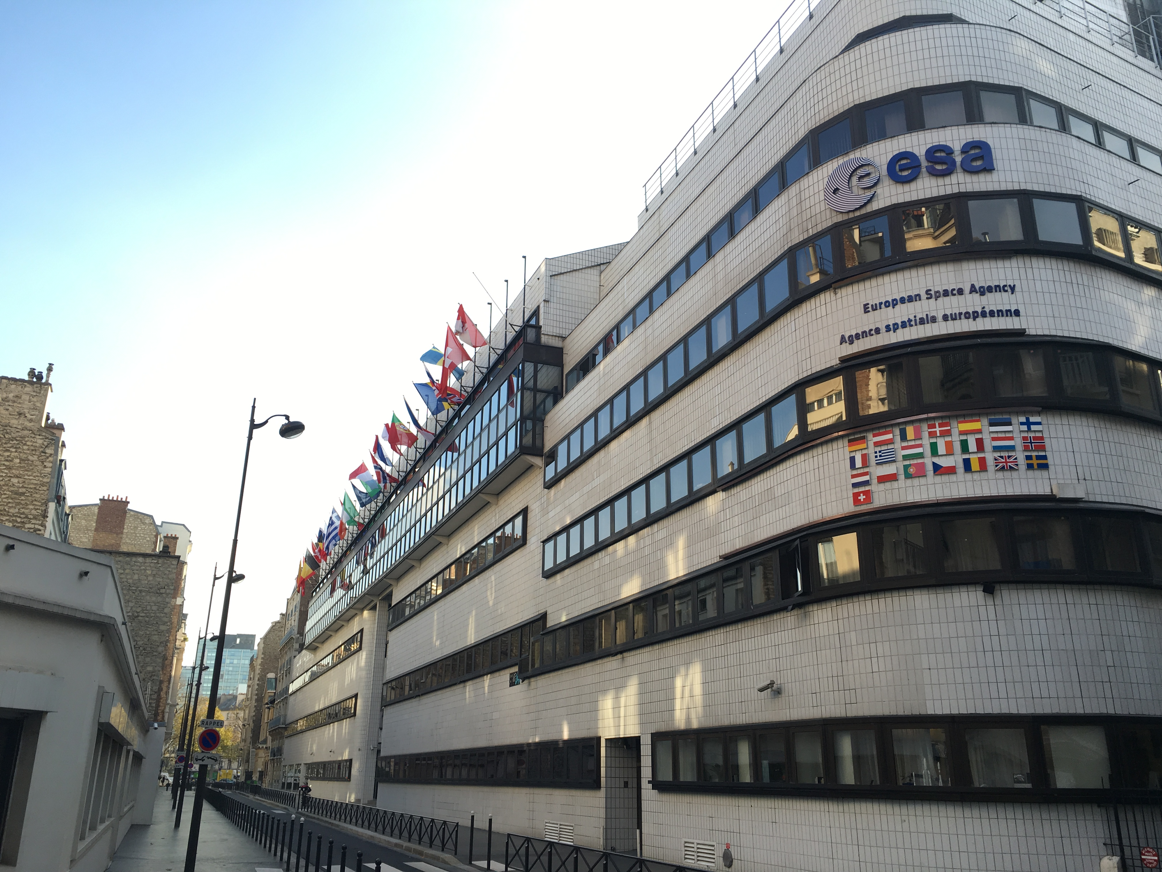 The image shows the European Space Agency ESA's Headquarters in Paris, France. The photograph was taken on 23 November 2015, showing the new 22 member state decorations.